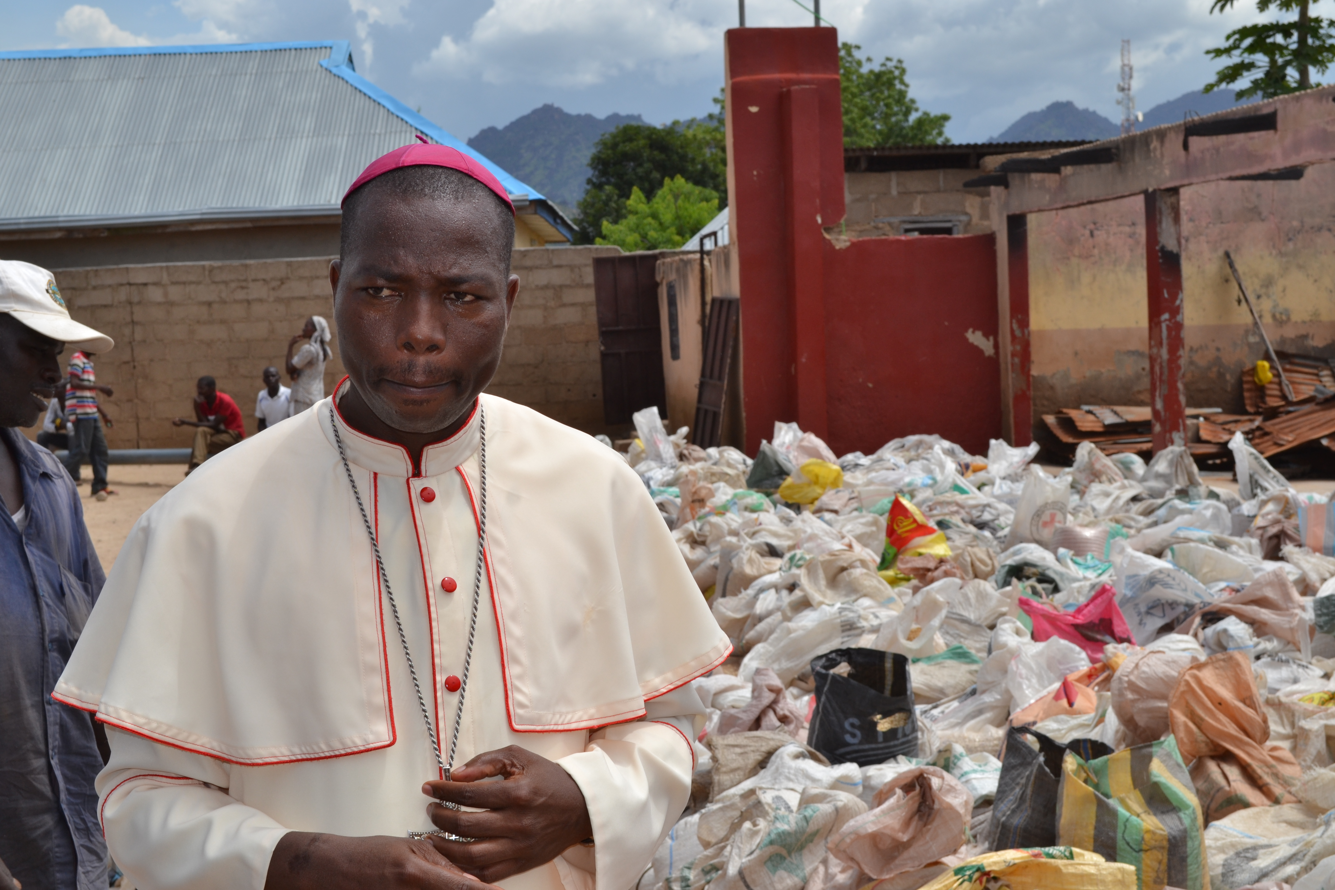 The Catholic Bishop of Yola Diocese, Stephen Mamza, distributing food aid to victims of Boko Haram insurgency in Michika, Adamawa state, northeast Nigeria. This is an image of Cultural Fashion or Adornment from Nigeria